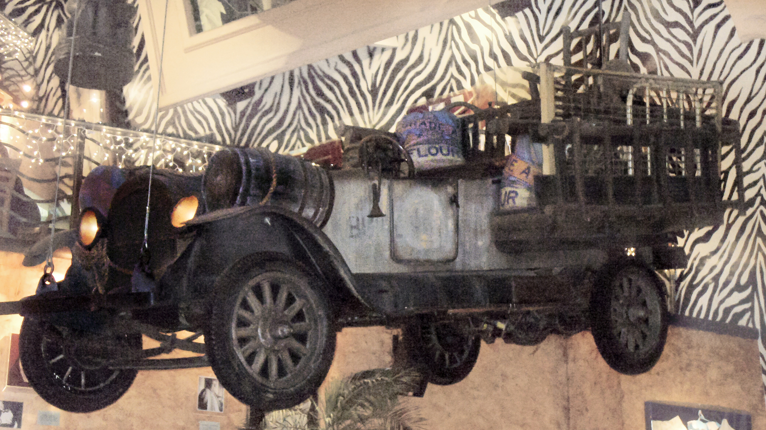 I am the originator of this photo. I hold the copyright. I release it to the public domain. This photo depicts The Beverly Hillbillies truck currently residing at Planet Hollywood in Downtown Disney, Orlando, Florida. A 1921 Oldsmobile Model 46 Roadster customized by George Barris